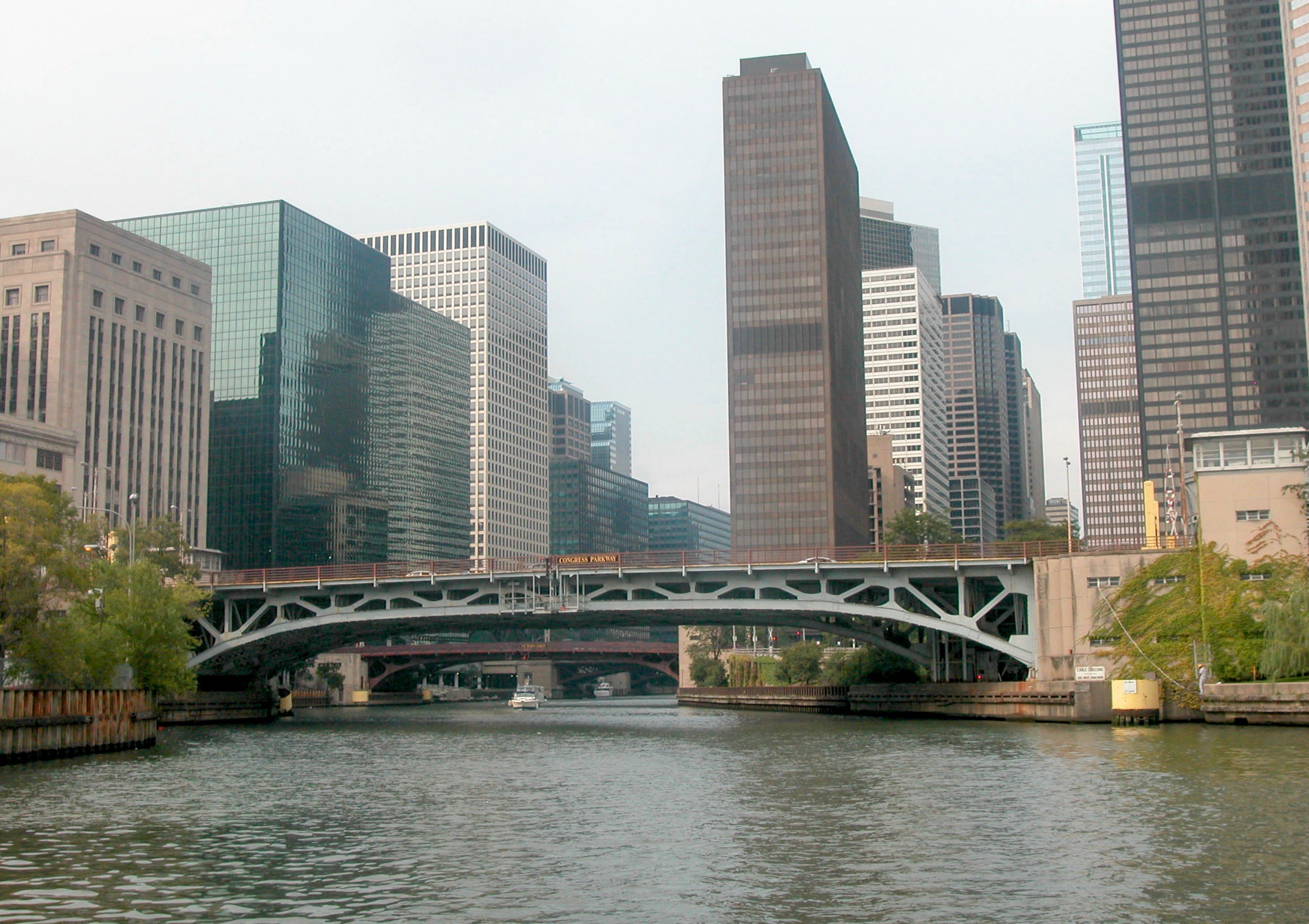 Looking north, from a boat on the Chicago River, towards the Congress Parkway Bridge and the Loop (downtown Chicago). Below the bridge, the Van Buren Street Bridge is also visible, farther north.